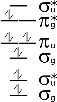 Aufbau diagram for singlet oxygen